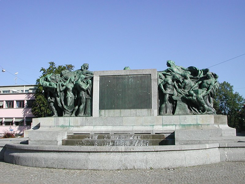 Welttelegraphendenkmal beim Helvetiaplatz in Bern Source: photo uploaded by User:RicciSpeziari. Photographer: Riccardo Speziari